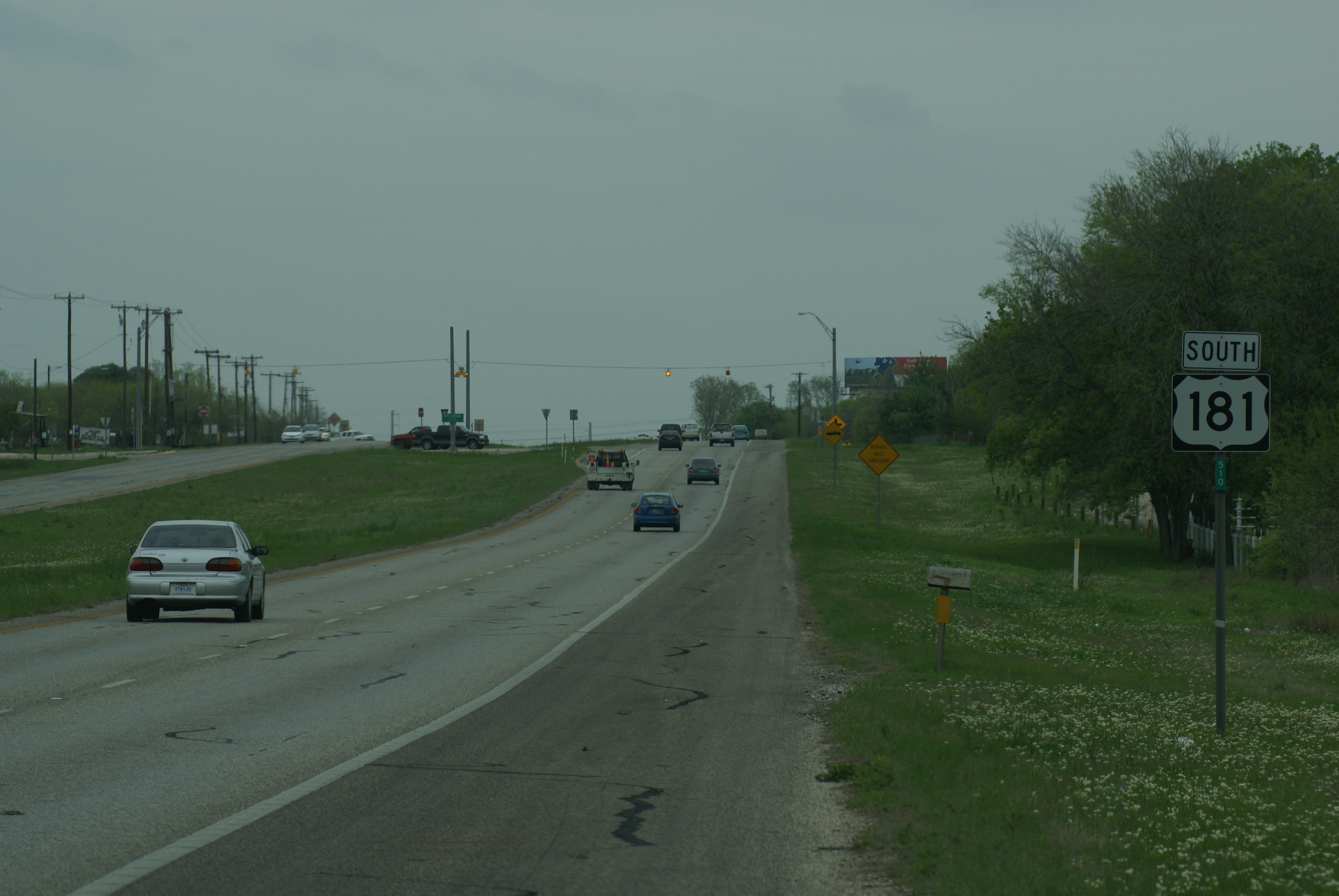 U.S. Highway 181 just southeast of San Antonio, Texas.